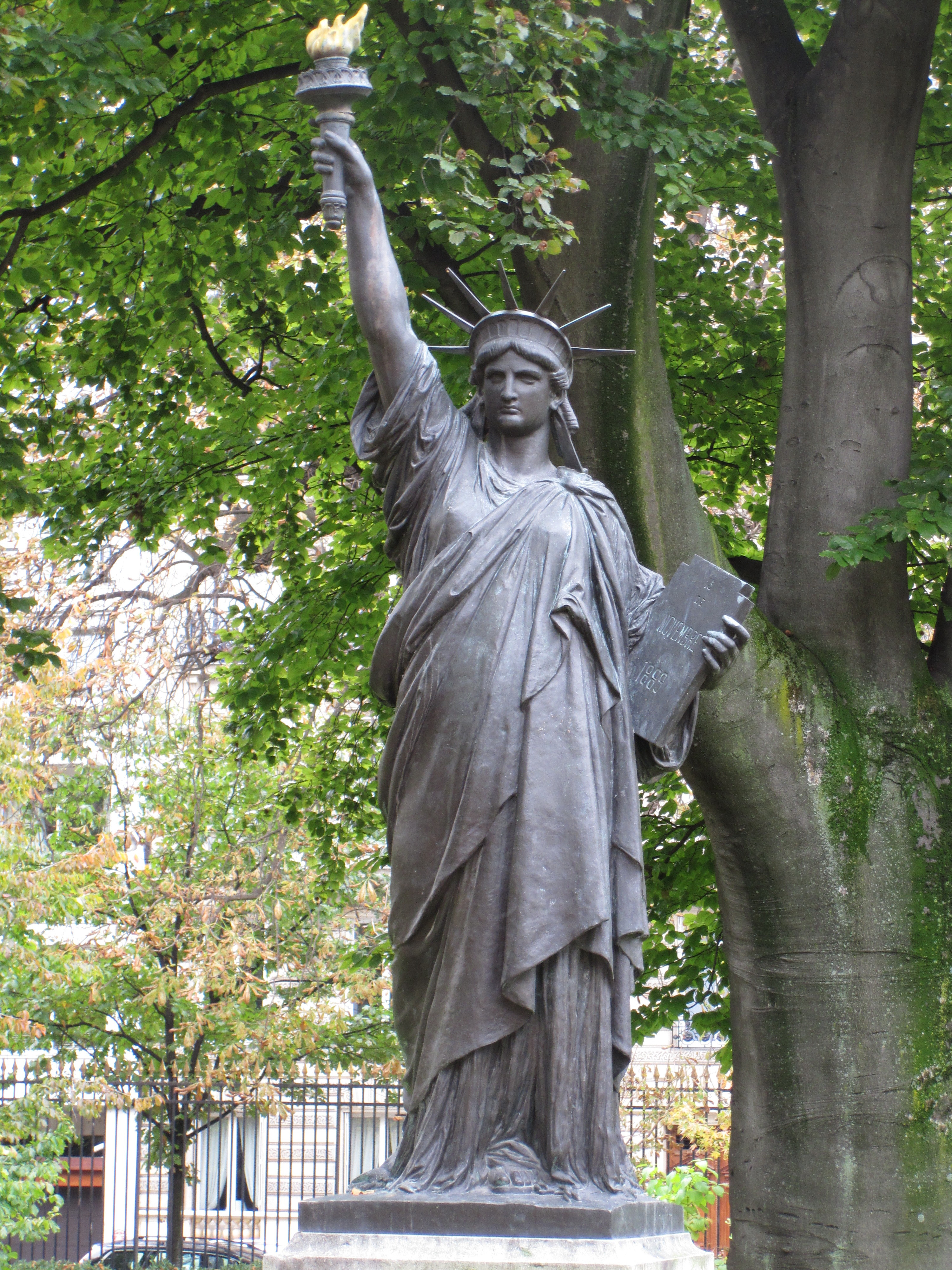 The first statue of liberty. Located in the Jardin du Luxembourg, Paris. Date on the book November 15, 1889 (15 DE NOVEMBRE 1889)